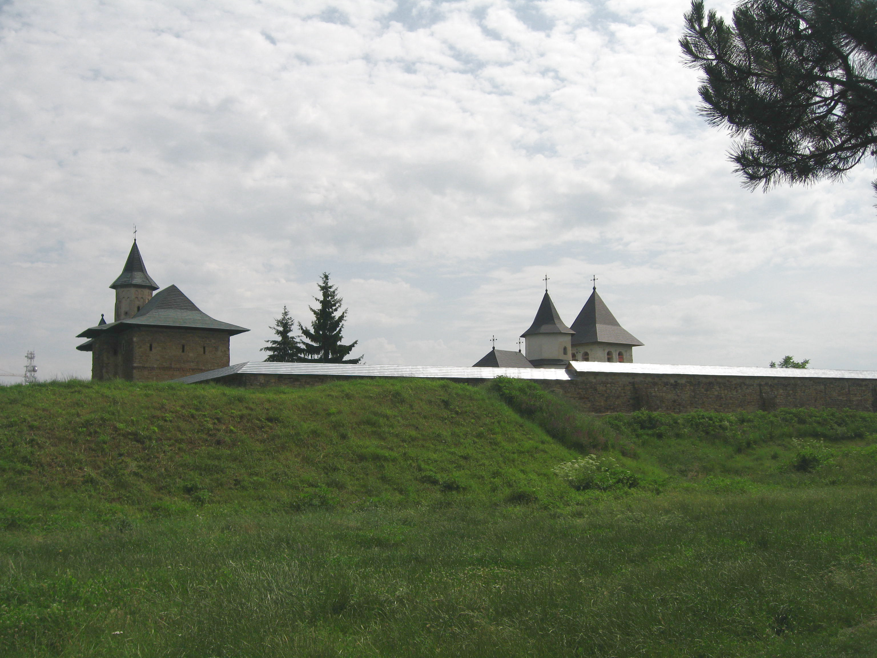 Zamca Monastery in Suceava.